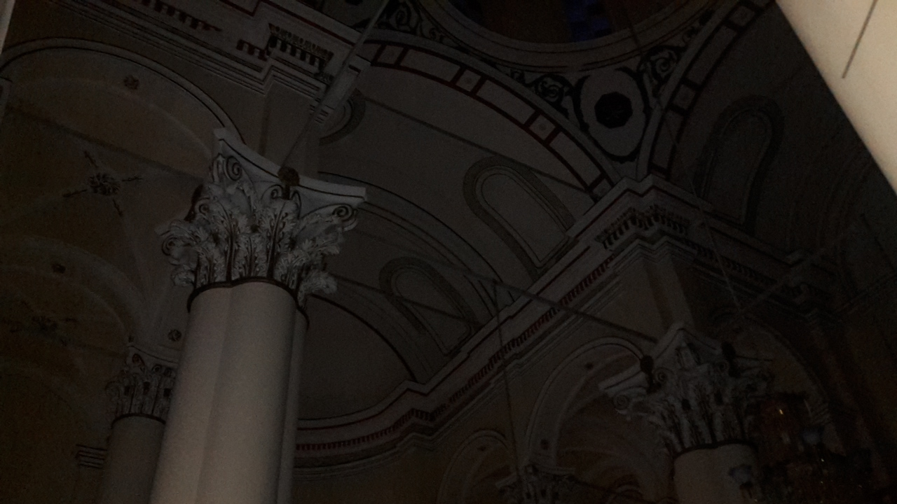 Former Greek St. John's Church in Aivali, Balikessir